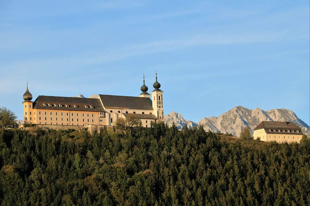 Sanctuary Frauenberg an der Enns (Austria)